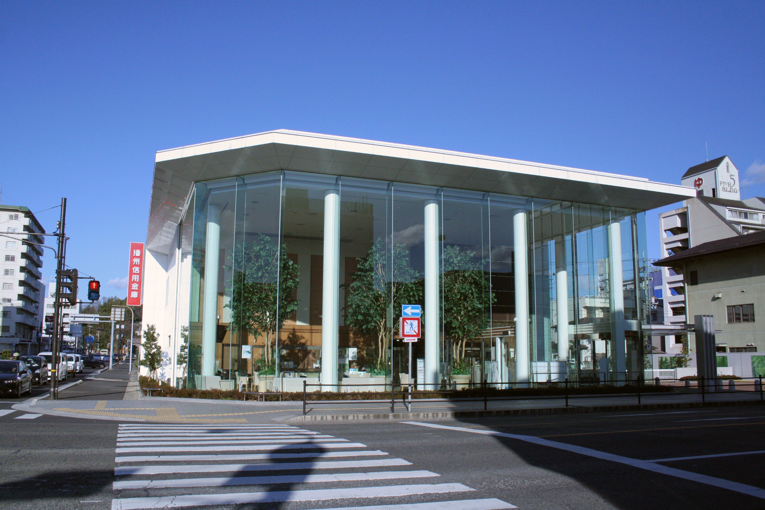 Bansyu Shinyo kinko is a Shinkin bank in Himeji-shi, Hyogo. This photograph is one of branches.